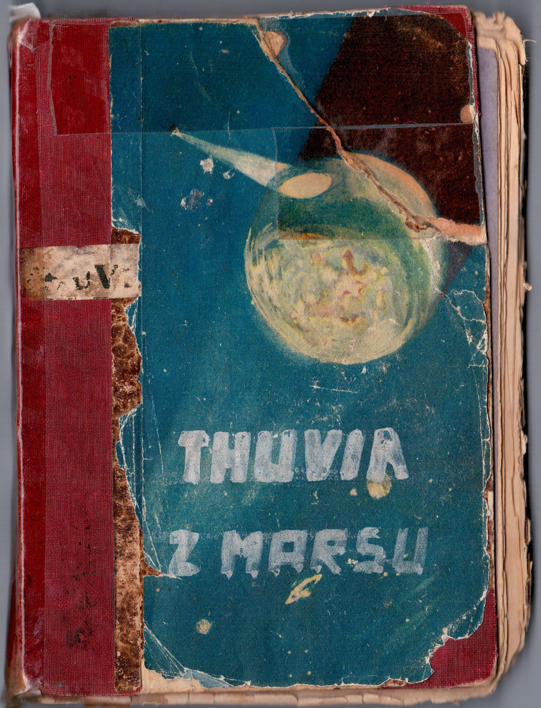 the cover of the book